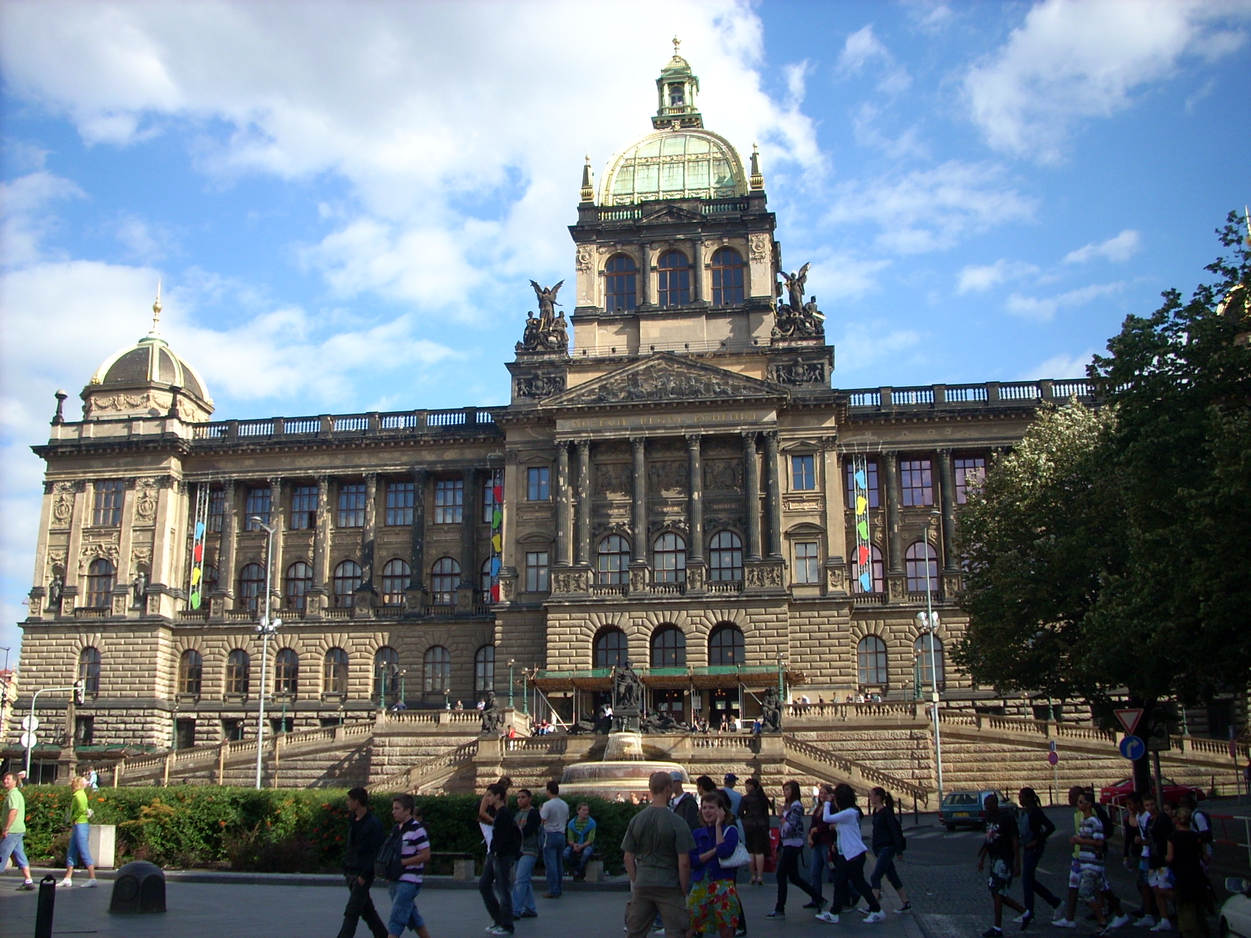 National Museum in Prague